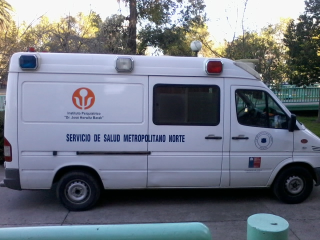 Ambulance of the Instituto Psiquiátrico Dr. José Horwitz Barak,Santiago,Chile.